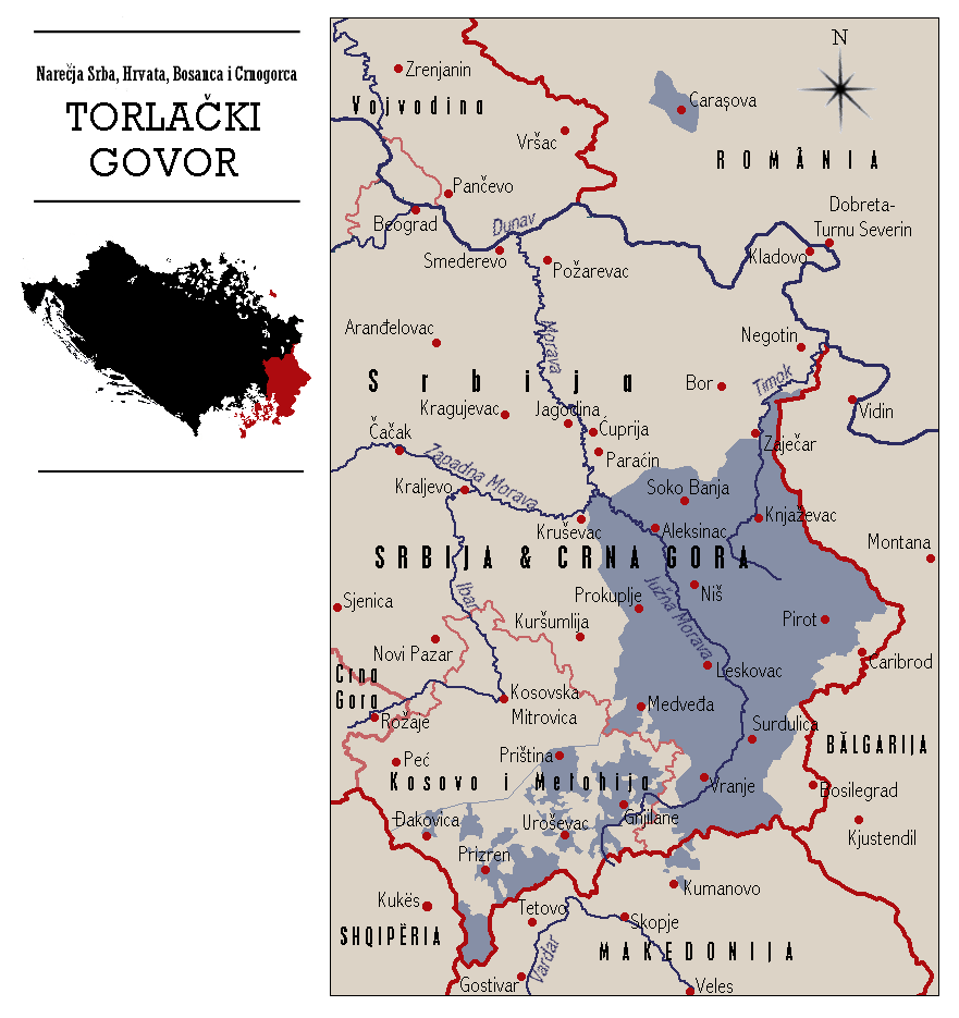 Location map of the Torlakian dialect of Serbian